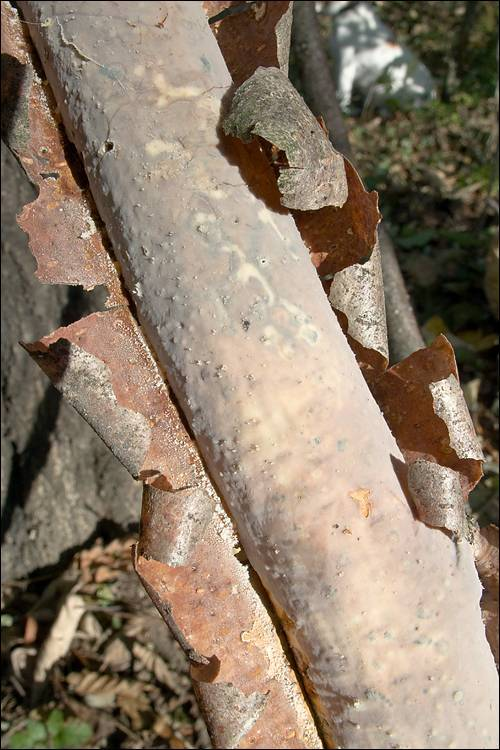 The crust fungus Vuilleminia comedens (Nees) Maire. Specimen photographed in Bovec basin, East Julian Alps, Posočje, Slovenia.